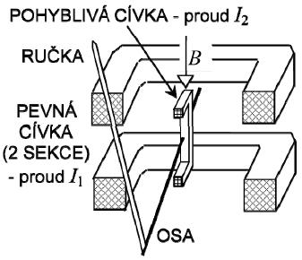 The principle of an electrodynamic measuring device (Google translator)